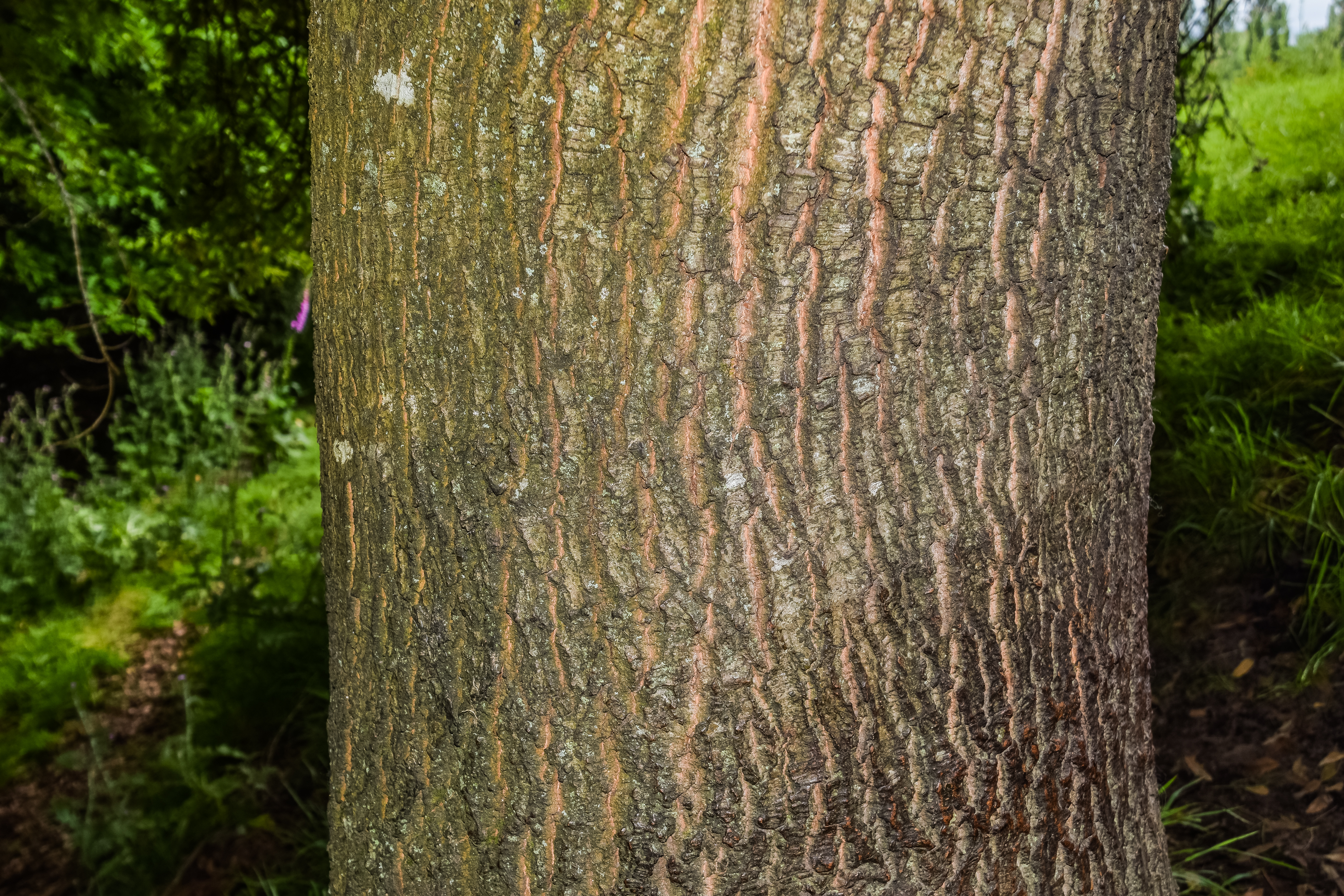 Quercus salicifolia in Hackfalls Arboretum, Gisborne Region, New Zealand